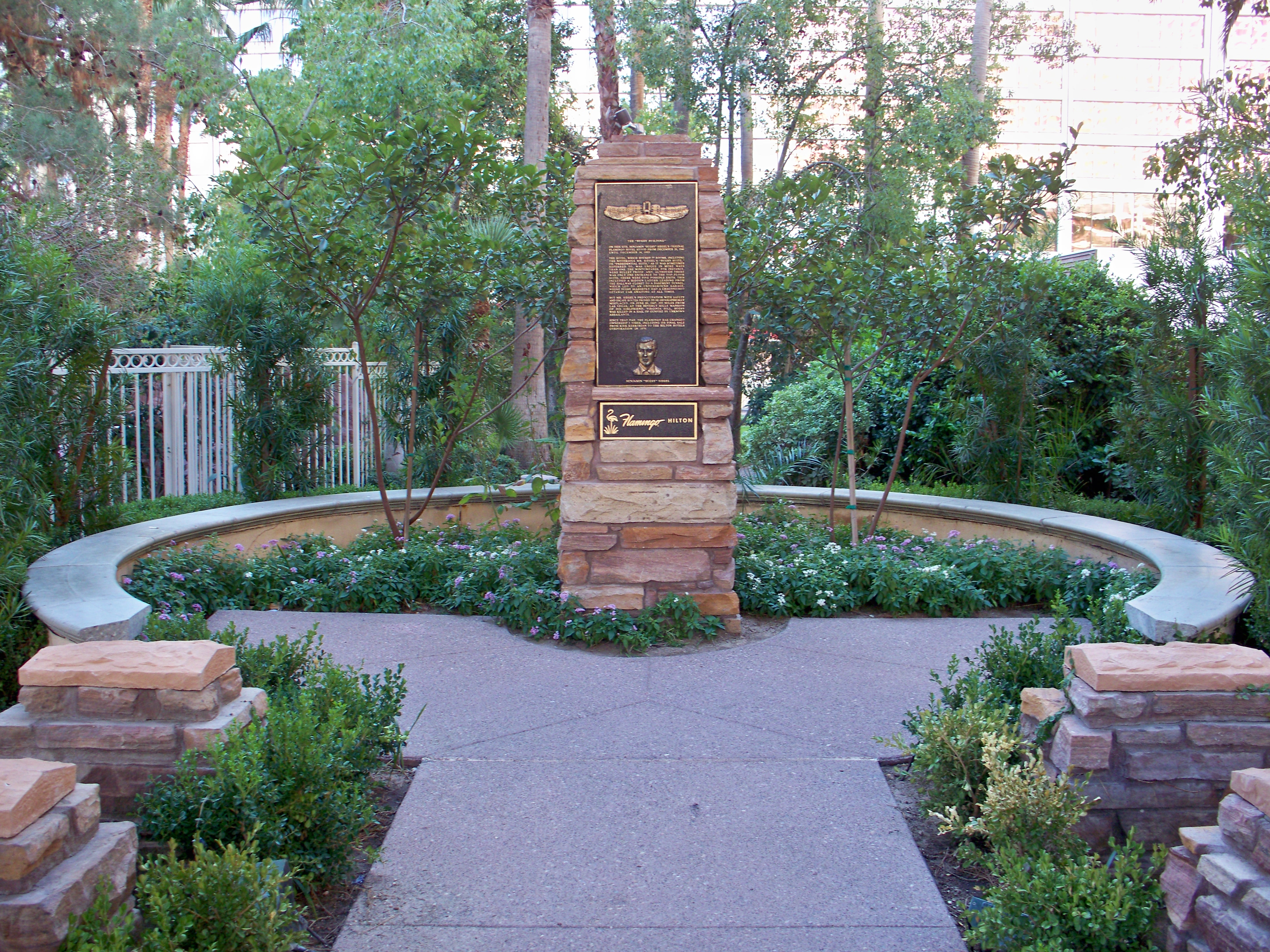 The Bugsy Siegel memorial outside the wedding chapel at the Flamingo Hotel on the Las Vegas Strip, taken Saturday, November 3, 2012, in Las Vegas, Nevada, USA.